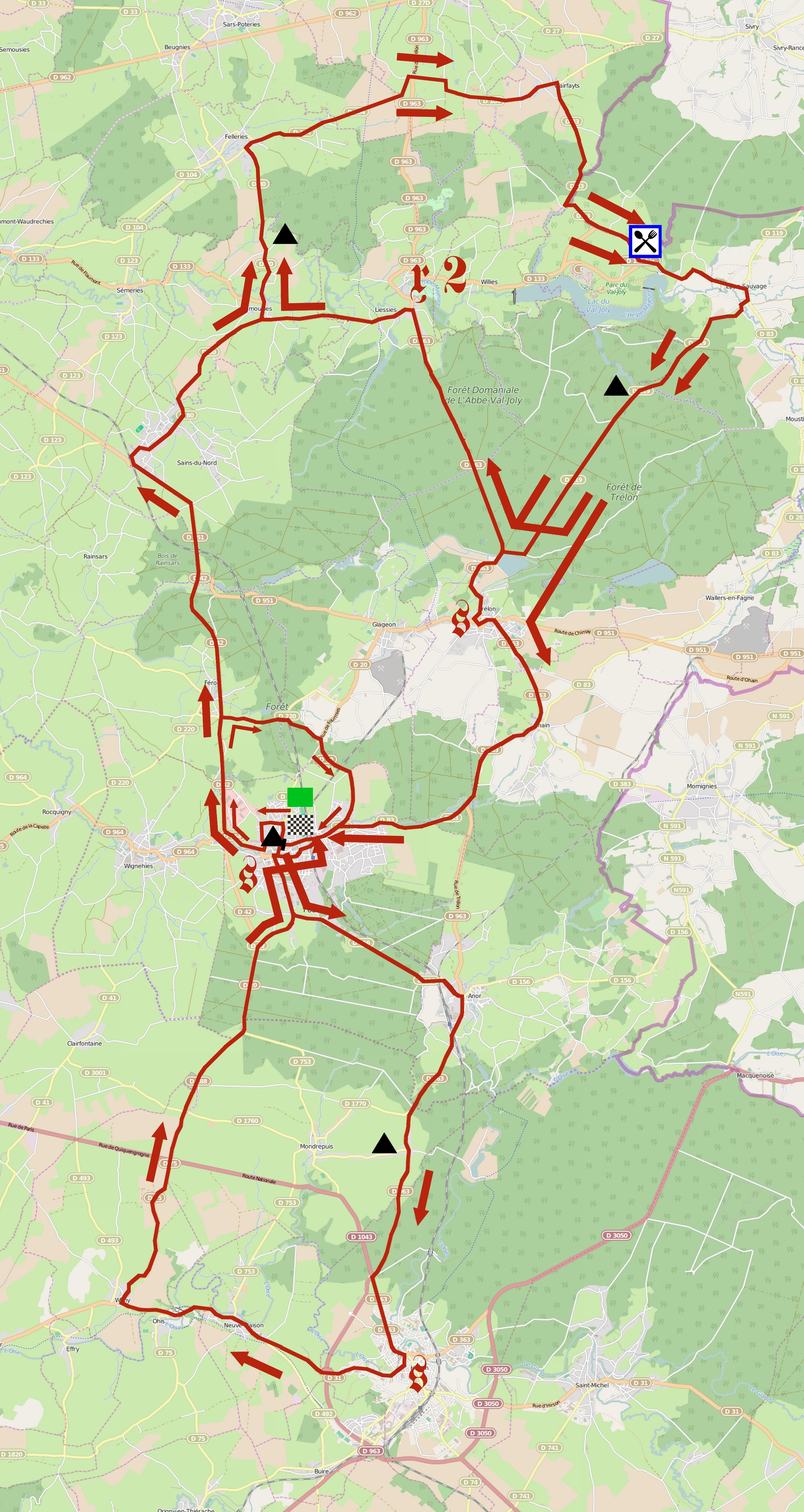 Parcours du Grand Prix de Fourmies 2015. This map may be incomplete, and may contain errors. Don't rely solely on it for navigation.